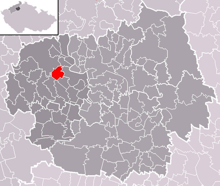 Location of Vchynice municipality within Litoměřice District and administrative area of Lovosice as a Municipality with Extended Competence.